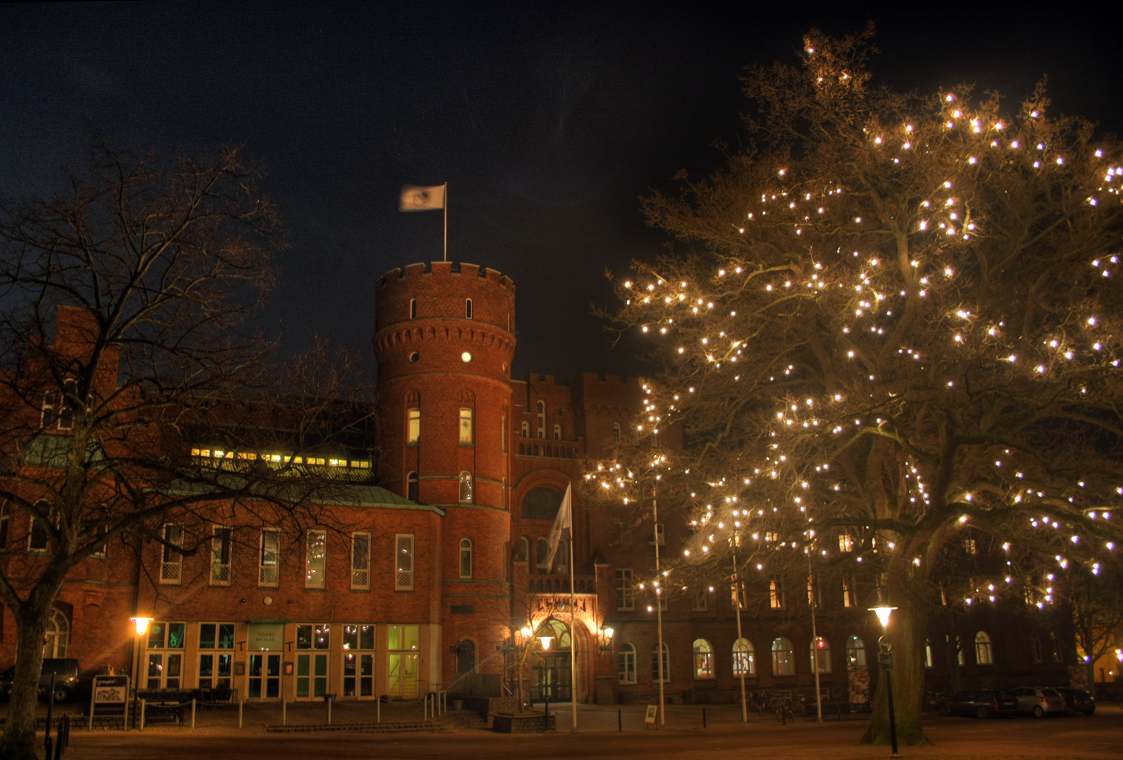 House of the Academic Society in Lund in winter evening time. The image has been assembled from three exposures with HDR software.